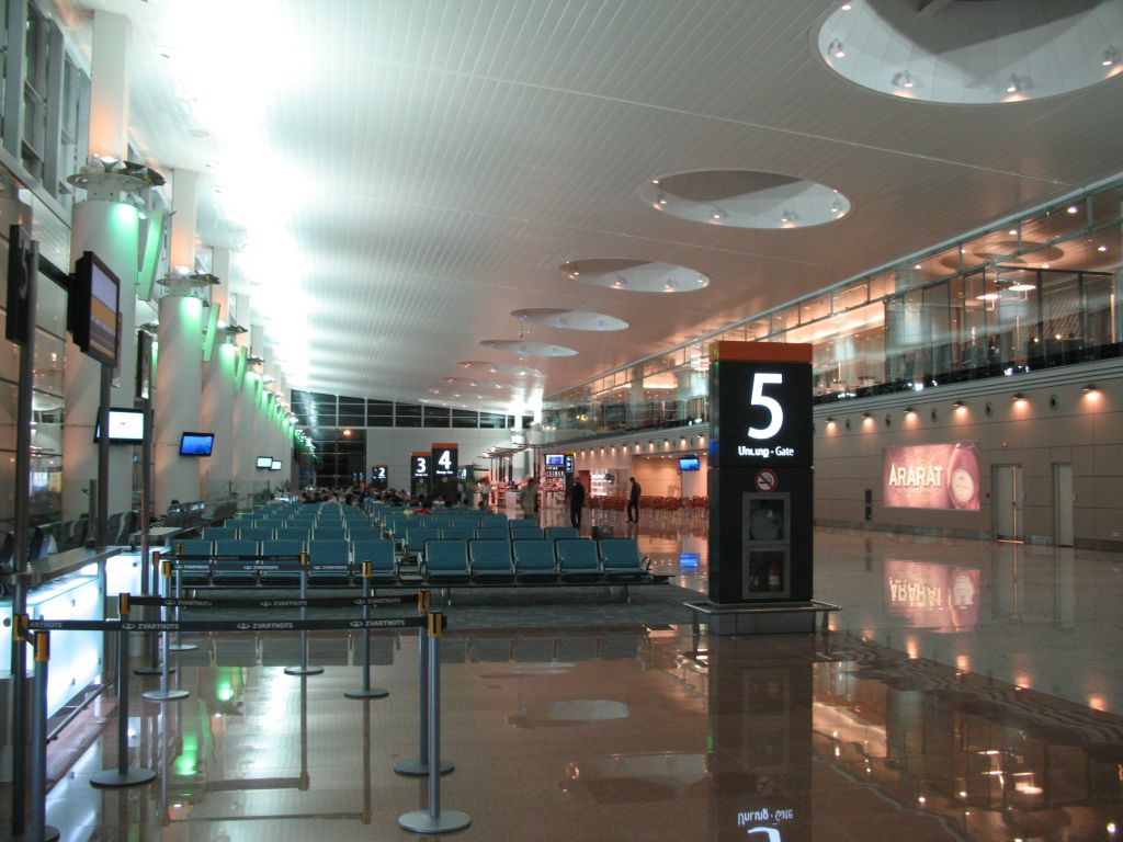 Zvartnots New Terminal